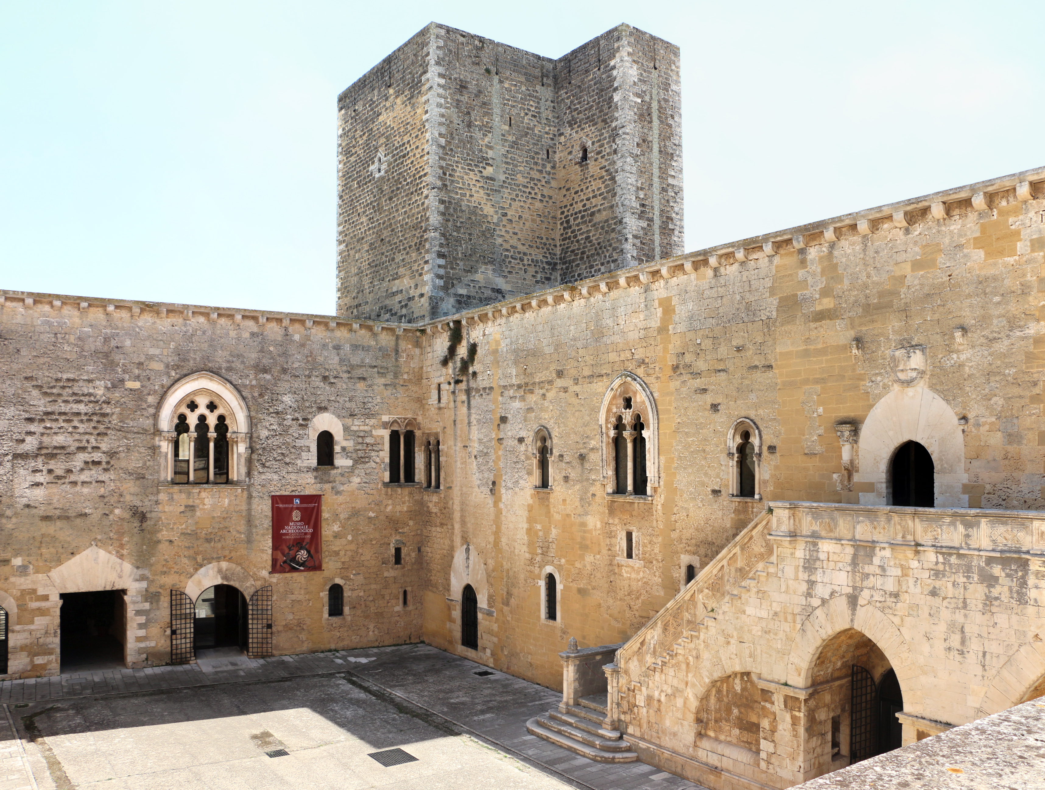 Castello normanno-svevo (Gioia del Colle)